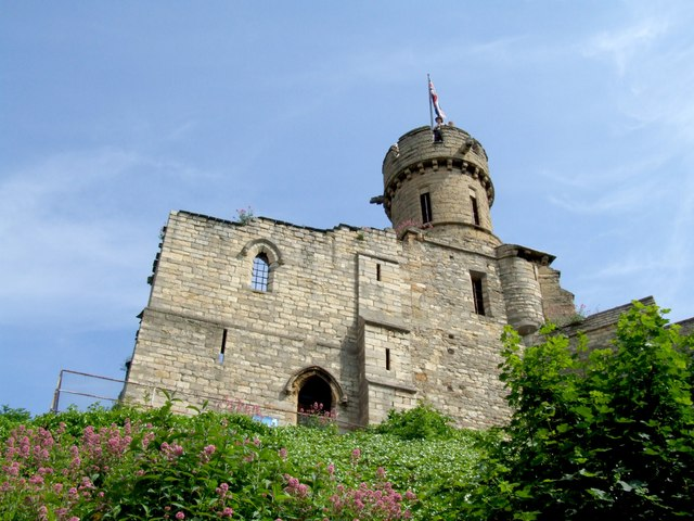 Lincoln Castle, Lincoln. The Observatory Tower - The square tower was built on this smaller motte at the south east corner of the castle. It is part Norman, part 14th century and the turret was added to it by a governor of the prison in the 19th-century. This is the highest part of the castle.